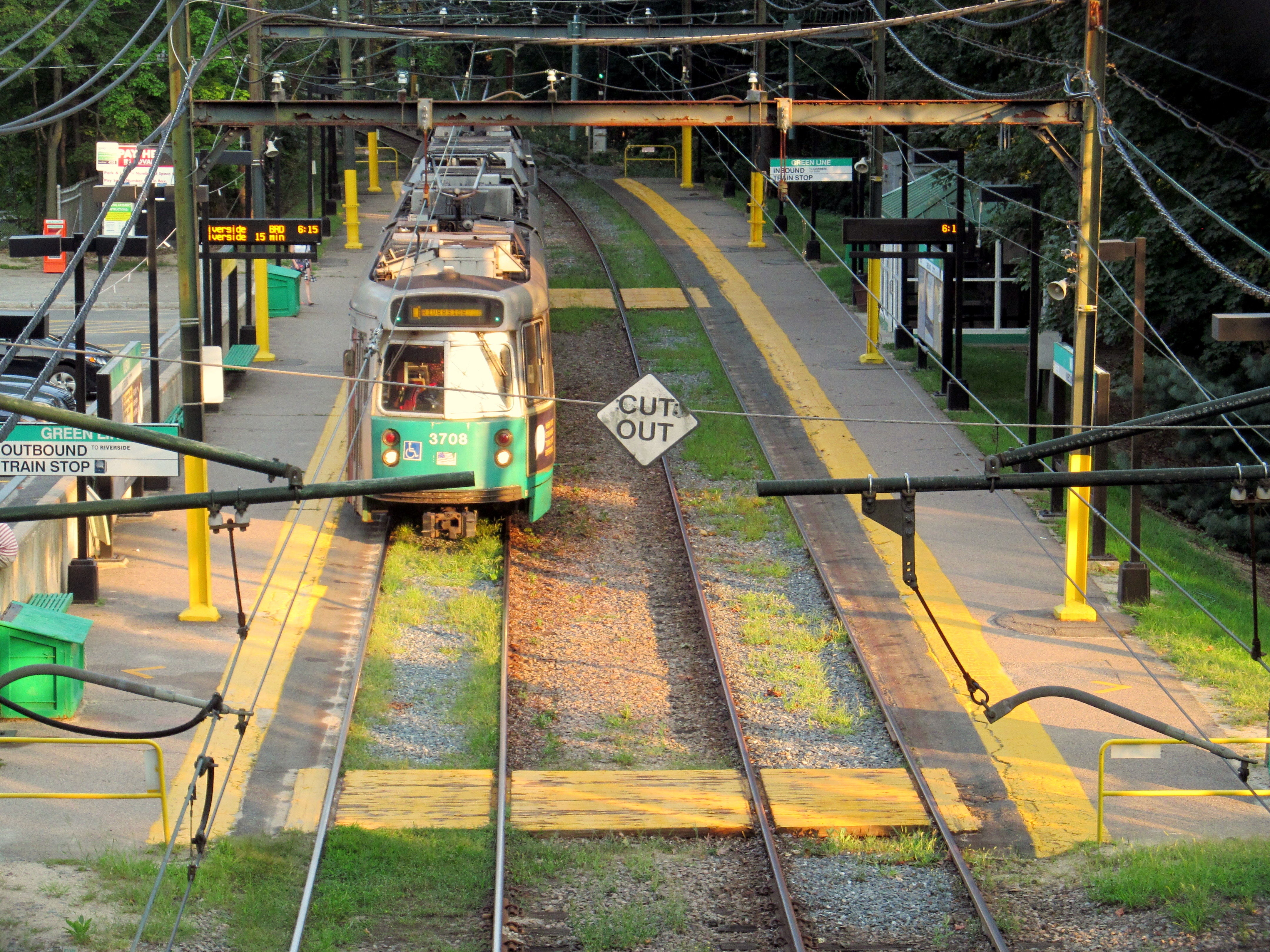 Waban station in September 2015